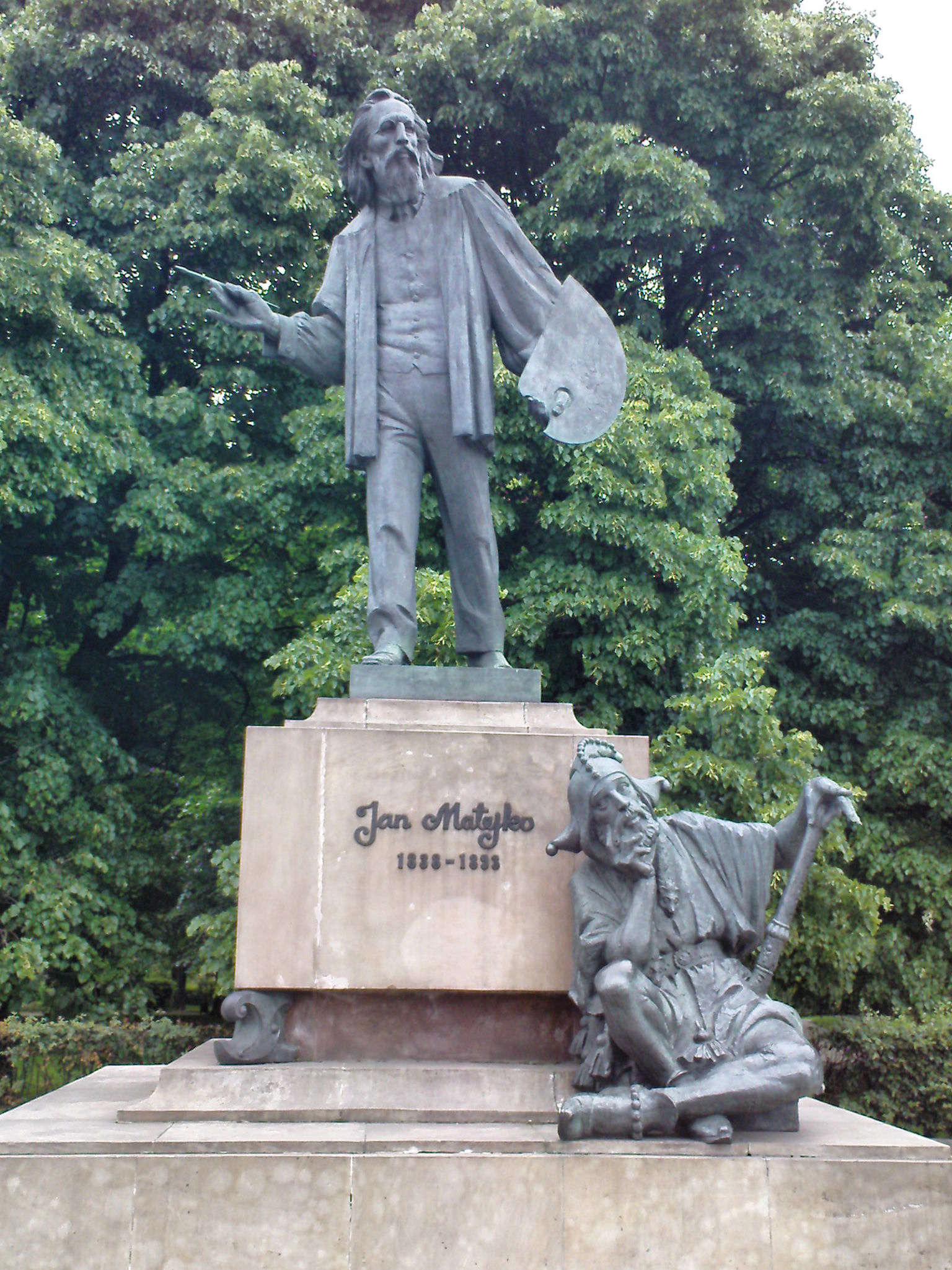 Jan Matejko Monument in Warsaw - Puławska Street